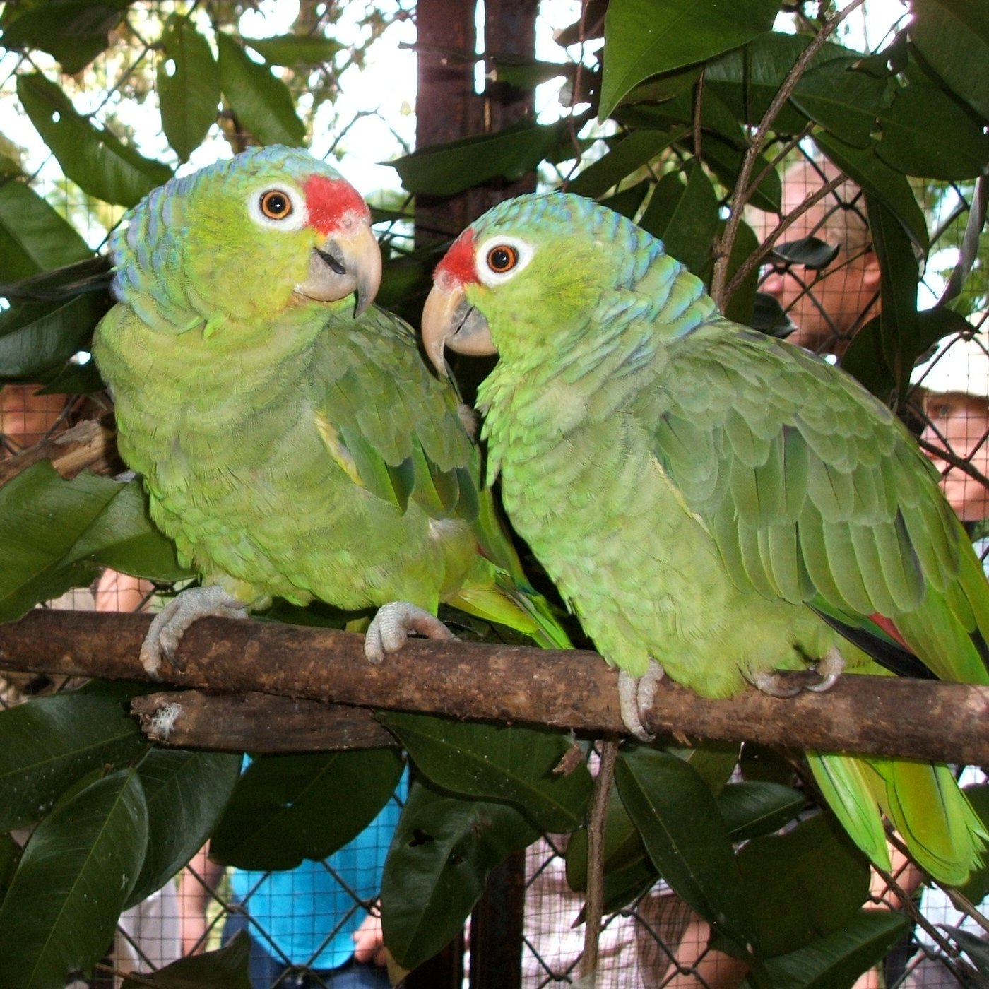 Red-lored Amazons at Caña Blanca Wildlife Sanctuary, on the Golfo Dulce, Costa Rica.